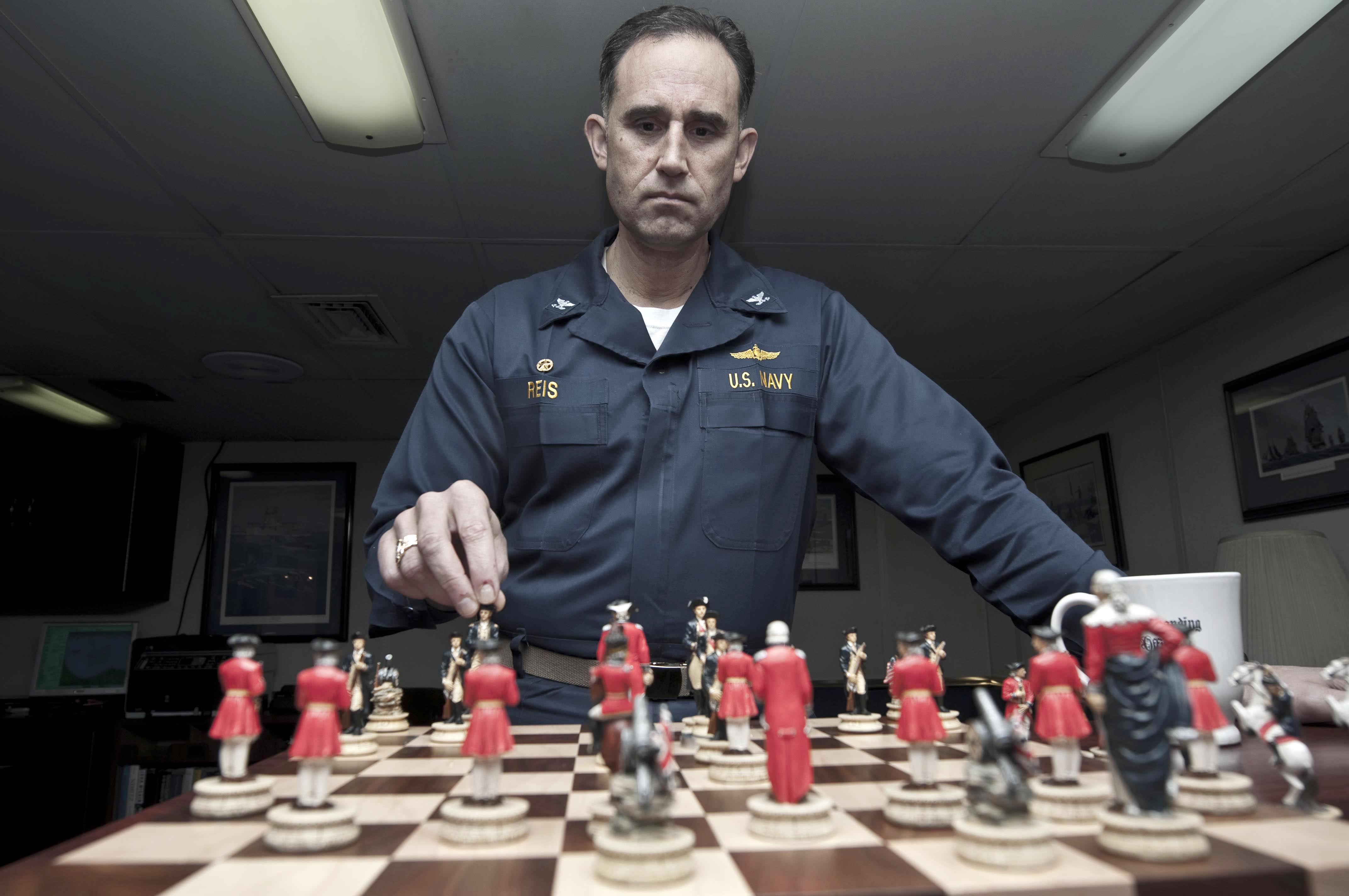 U.S. 5TH FLEET AREA OF RESPONSIBILITY (March 13, 2010) Capt. Ronald Reis, commanding officer of the amphibious assault ship USS Nassau (LHA 4), contemplates a move on the Revolutionary War chess set in his stateroom. Nassau is the command platform for the Nassau Amphibious Ready Group and the embarked 24th Marine Expeditionary Unit (24th MEU) supporting maritime security operations and theater security cooperation in the U.S. 5th Fleet area of responsibility. (U.S. Navy photo by Mass Communication Specialist Seaman Jonathan Pankau/Released)